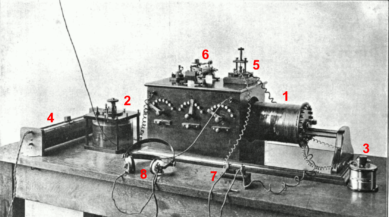 Early crystal radio receiver built by a radio amateur in Belfast, Ireland, during the pioneering wireless telegraphy era of radio around the first decade of the 20th century, showing examples of the early electronic components used. From a 1914 radio book. This example is a sophisticated inductively-coupled type, with an air-core antenna coupling transformer (called a loose coupler) to improve selectivity (Q factor) by adjusting the inductive coupling. This was used to receive long wave (148 - 283 kHz) radiotelegraphy broadcasts. Alterations to image: Added colored labels. The labelled parts are identified on p. 264 of the source text as: (1) Adjustable antenna coupling transformer, called a "loose coupler". The secondary coil, visible on the right, slides in and out of the primary coil in the box, to adjust the coupling of the antenna to improve selectivity. The switches on the front of the box select taps on the coil to adjust the impedance match between the antenna and the receiver (2) Primary (antenna) tuning capacitor, 8 nF max, only used on lower part of band (3) Secondary tuning capacitor (4) Antenna loading coil, 15 mH, only used on lower part of band (5) Crystal detector, "Perikon" (zincite-chalcopyrite junction) type (6) Spare crystal detector (7) Blocking capacitor, 8 nF (8) Earphones, electromagnetic type, 8000 ohm